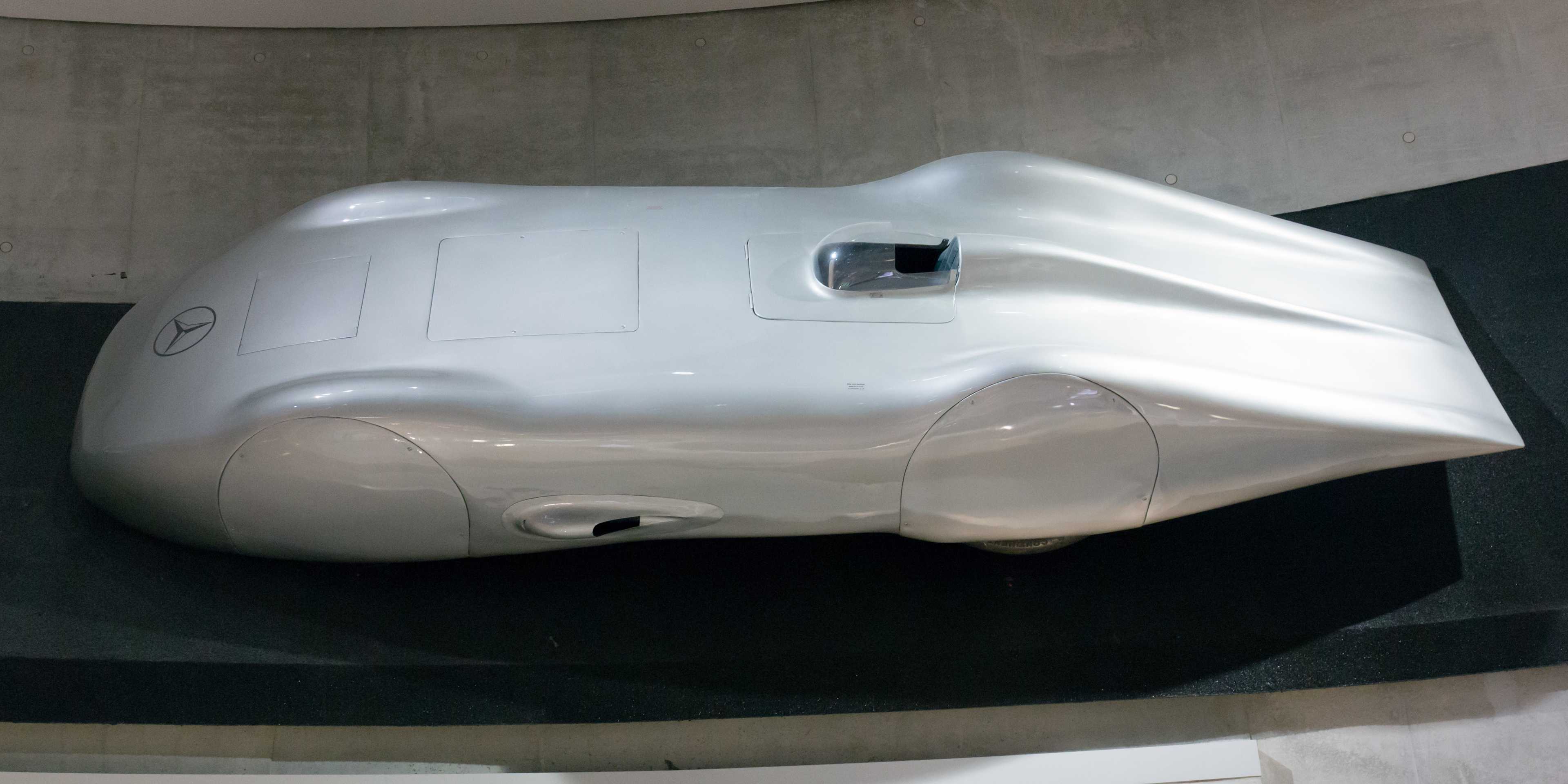 1938 Mercedes-Benz W125 Rekordwagen